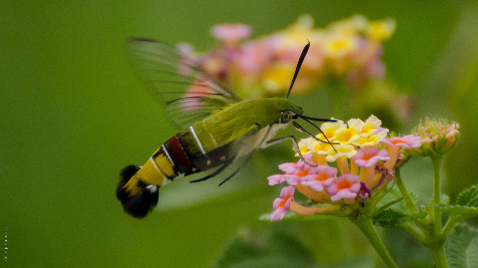 colourful pellucid hawk moth on colourful lantana camara flowers in Hyderabad, india